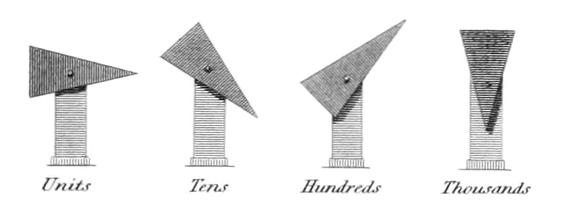 Fig. 12 from the plate on "Telegraph" in Rees's Cyclopædia, illustrating Richard Lovell Edgeworth's proposal for an optical telegraph system in Ireland. Each indicator was used to display the number of a particular unit, to form a four-figure number, which then represented characters and words via a codebook. For further explanatory text, see entry on "TELEGRAPH", volume 35 of the Cyclopædia.